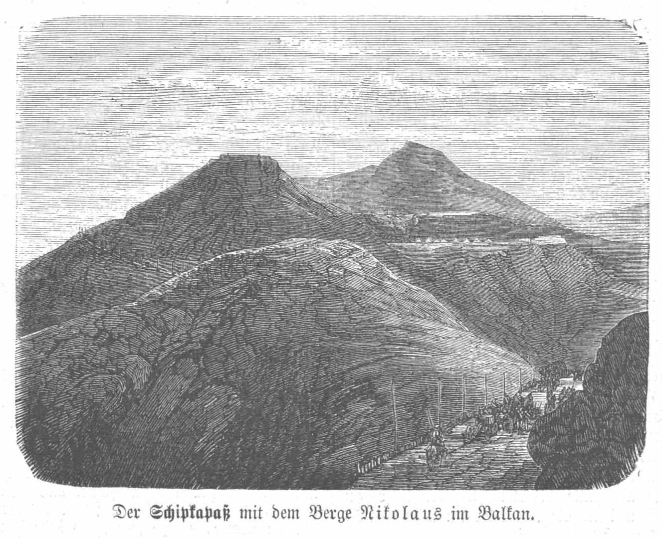 Schipkapass